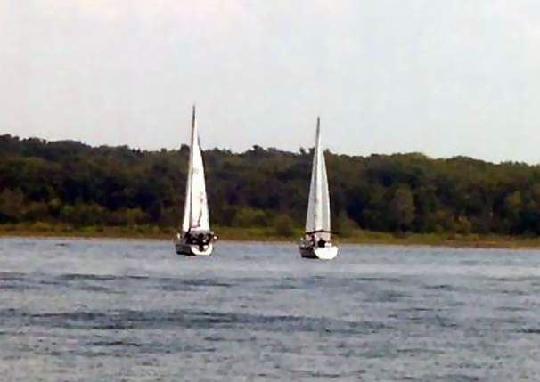 Sailboats on Stockton Lake in Missouri.